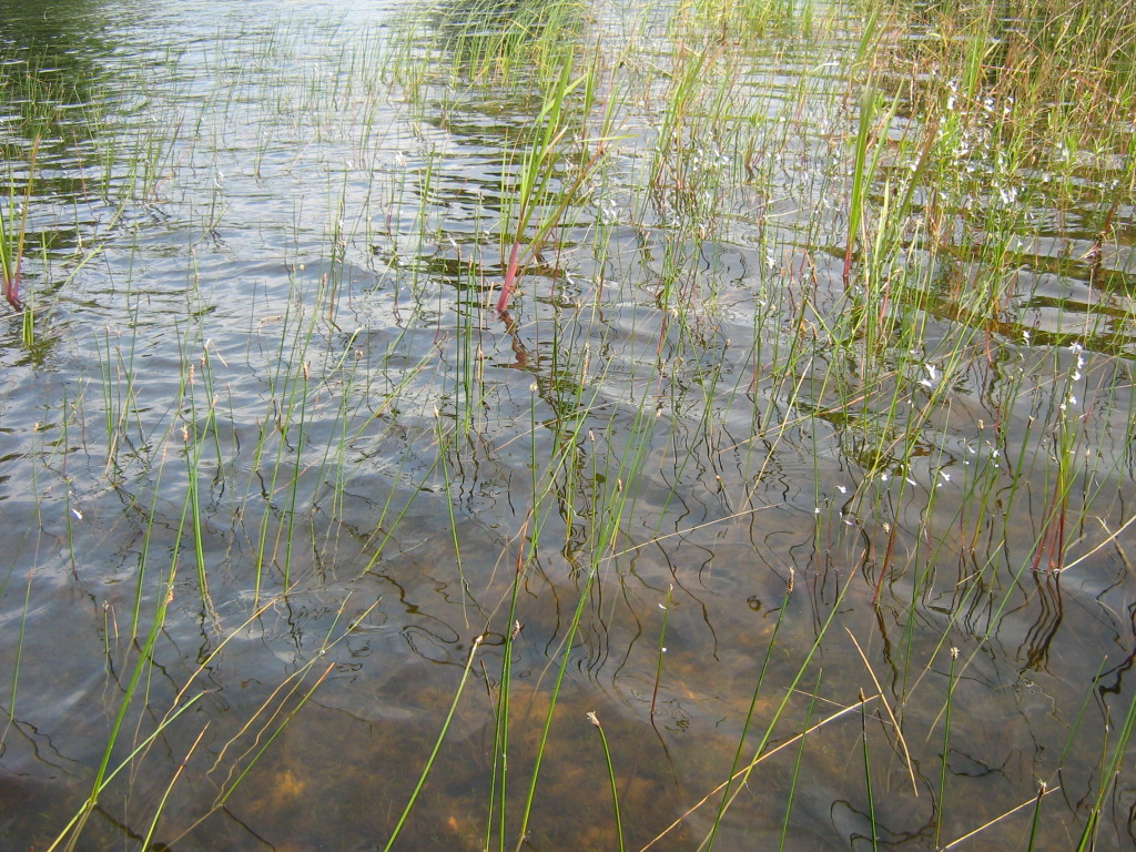 Bobięcińskie Małe Lake, North Poland, water lobelia